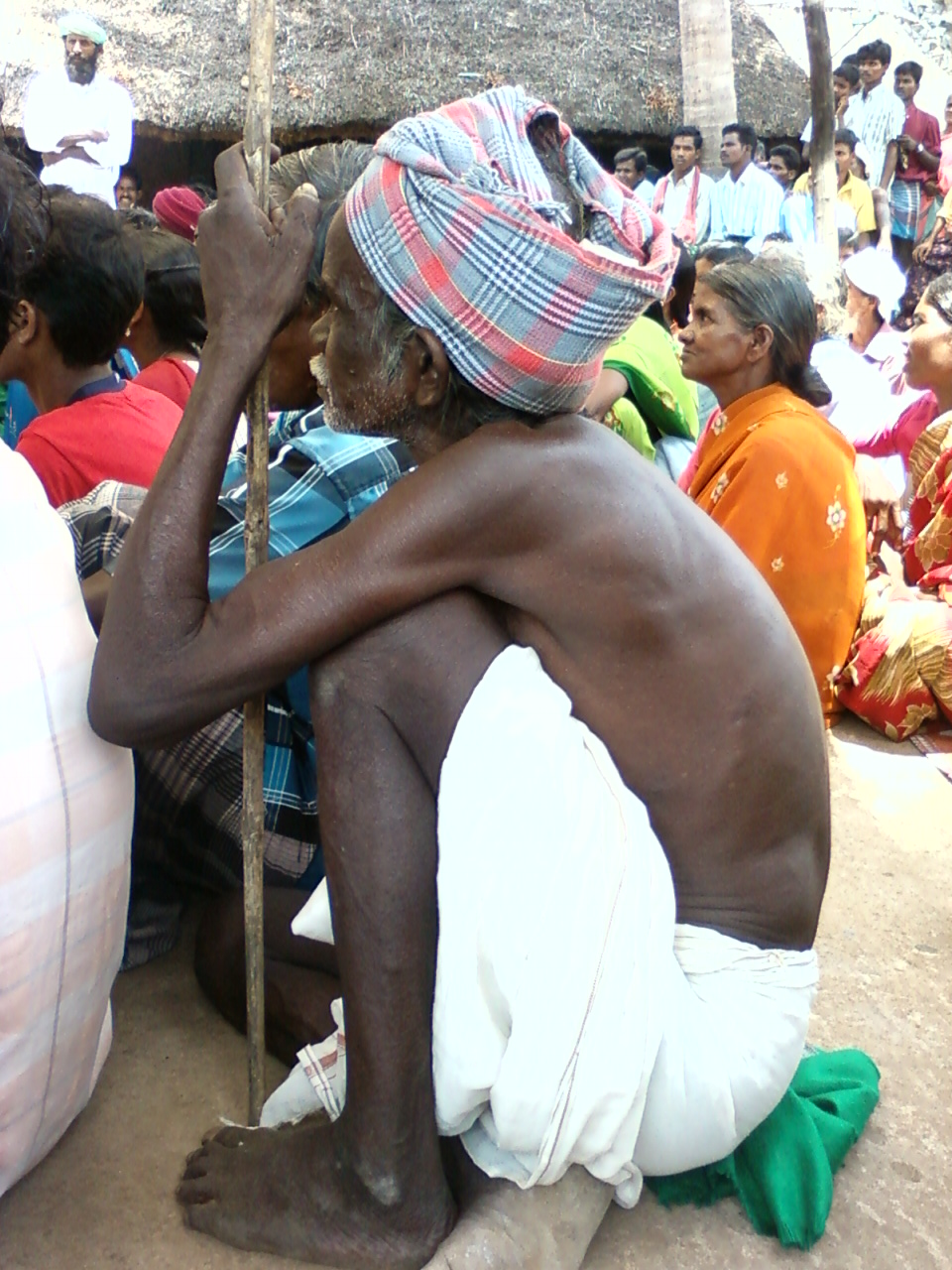 A male member of Malayali tribe living Jawadu hills. The picture was taken in Seengadu, a secluded inaccessible village situated in the part of the hill that comes under the jurisdiction of Tiruvannamalai district in TamilNadu. He is typical male member of the village with unique turban (thalaipagai). He was listening to then District Collector M.Rajendran who reached the village after considerable hardships.